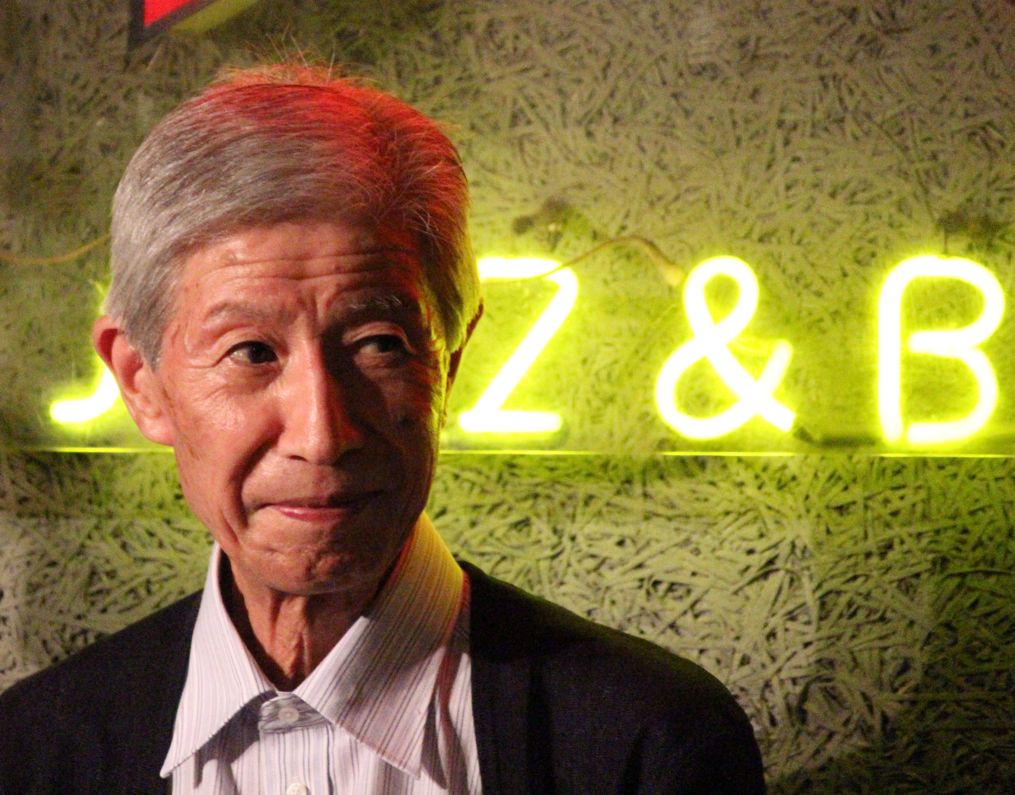 Photo by Hiro Yamada, Tokyo Swing Dance Society